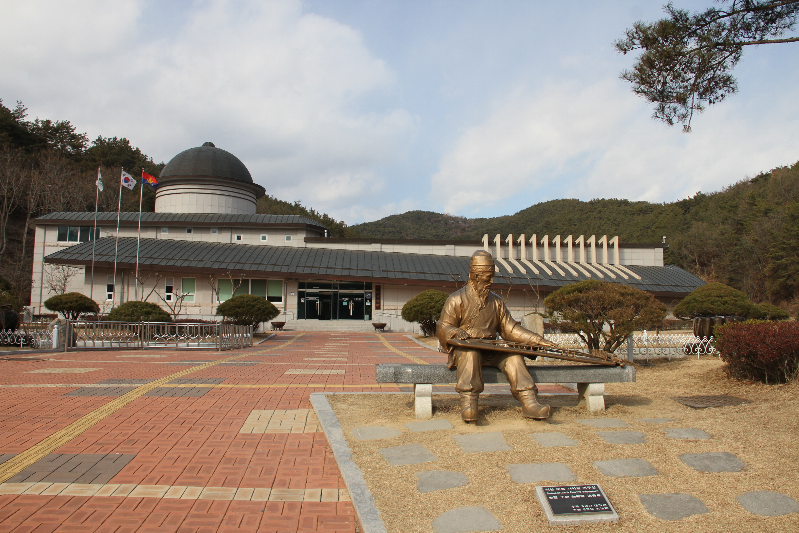 Exhibition place dedicated to Uruk, an ancient musician of Korea, who has fames of designing early Korean instruments, notably Gayageum.